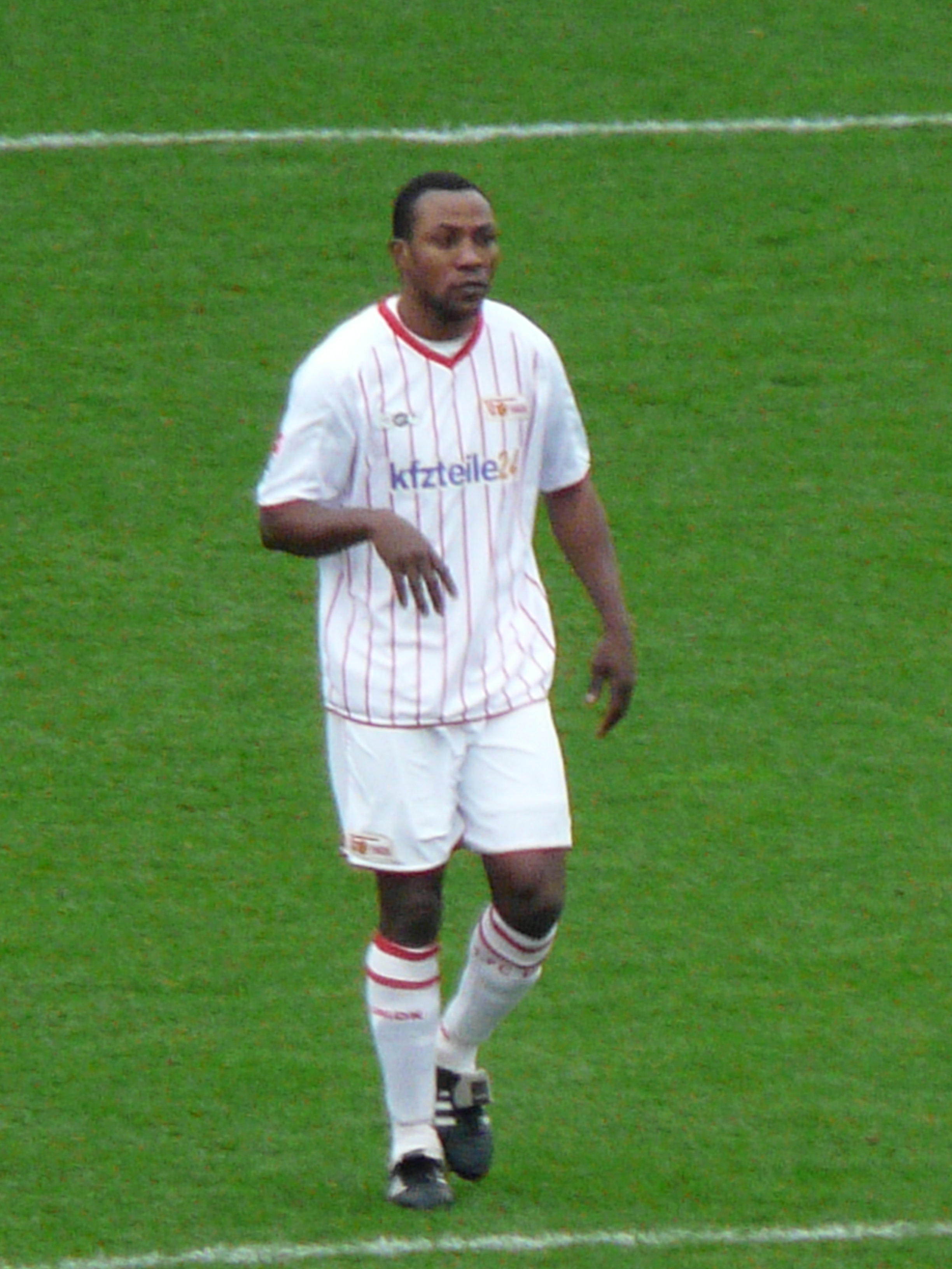 Macchambes Younga-Mouhani as Player from Union Berlin